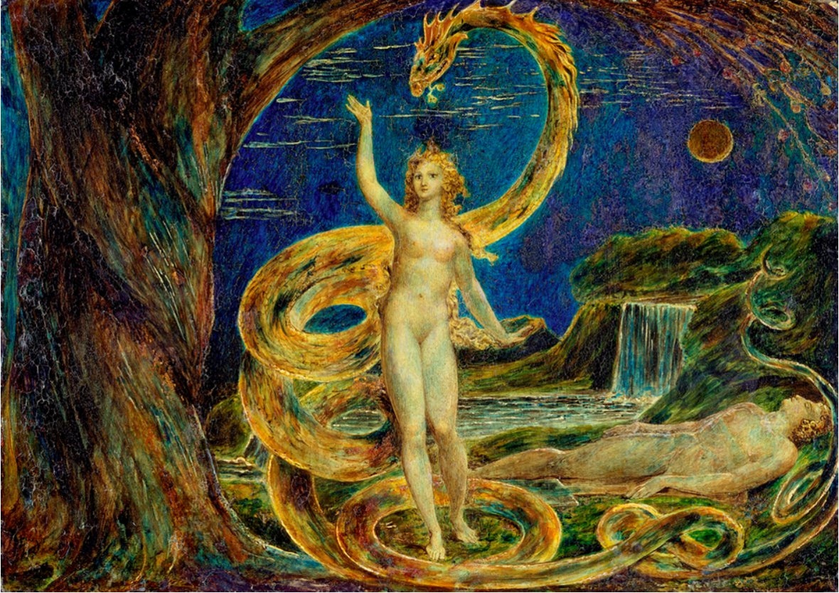 Blake drew his inspiration for this scene from the book of Genesis in the Old Testament and from John Milton's epic poem 'Paradise Lost' (1667). Blake often experimented with painting techniques, and here the surface has flaked badly because of the poor adhesion between a glue-based paint and the copper support he used.